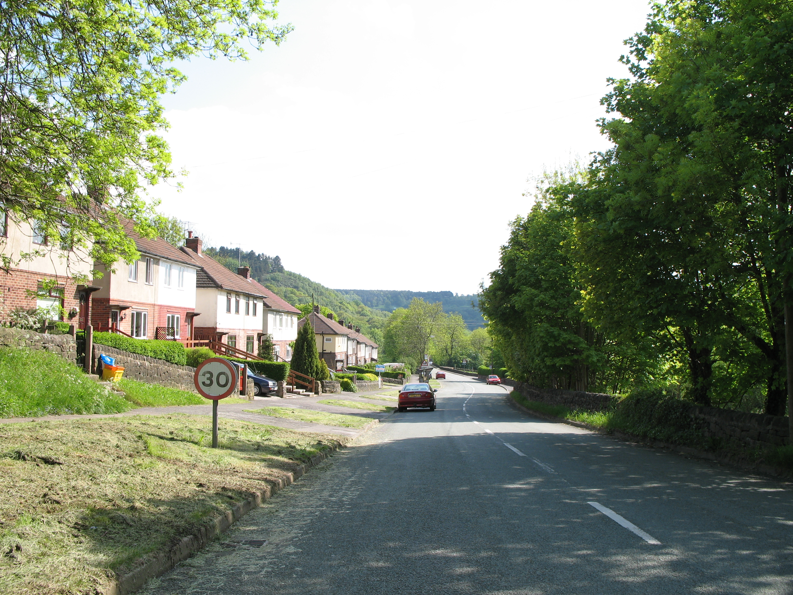 Lea Bridge in Derbyshire. Taken by Andrew Waite (naxtek) on a Canon A620